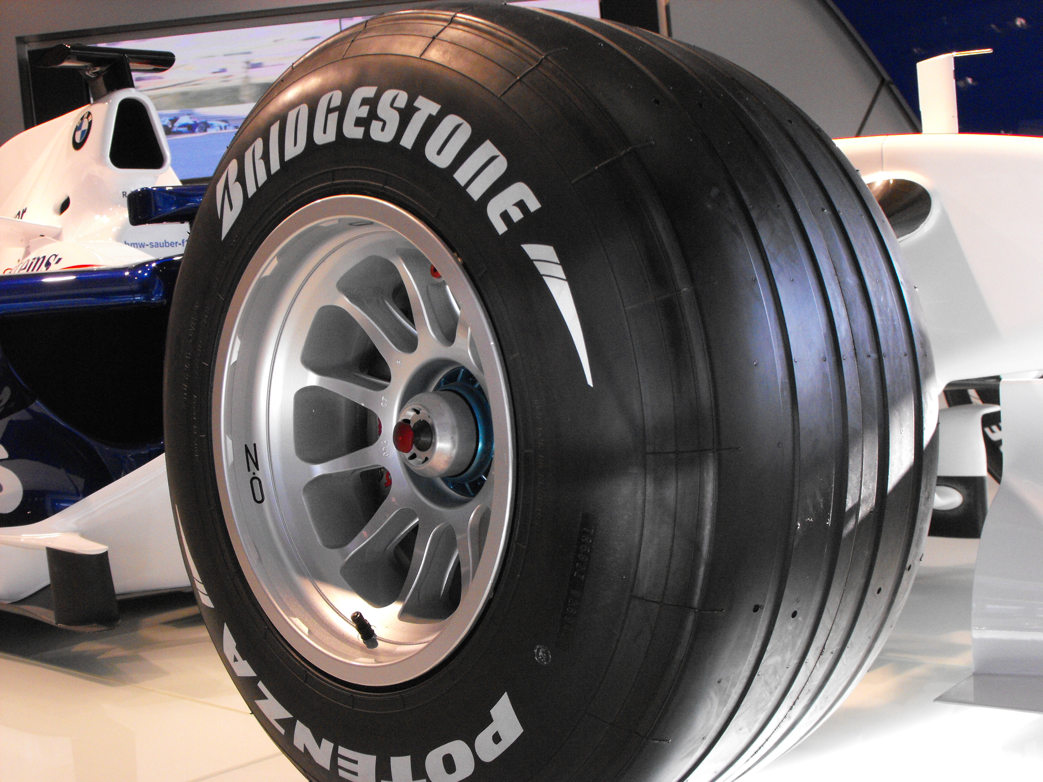 Front tire - BMW Sauber F1 Team. Picture taken in BMW Museum, Munchen, Germany.